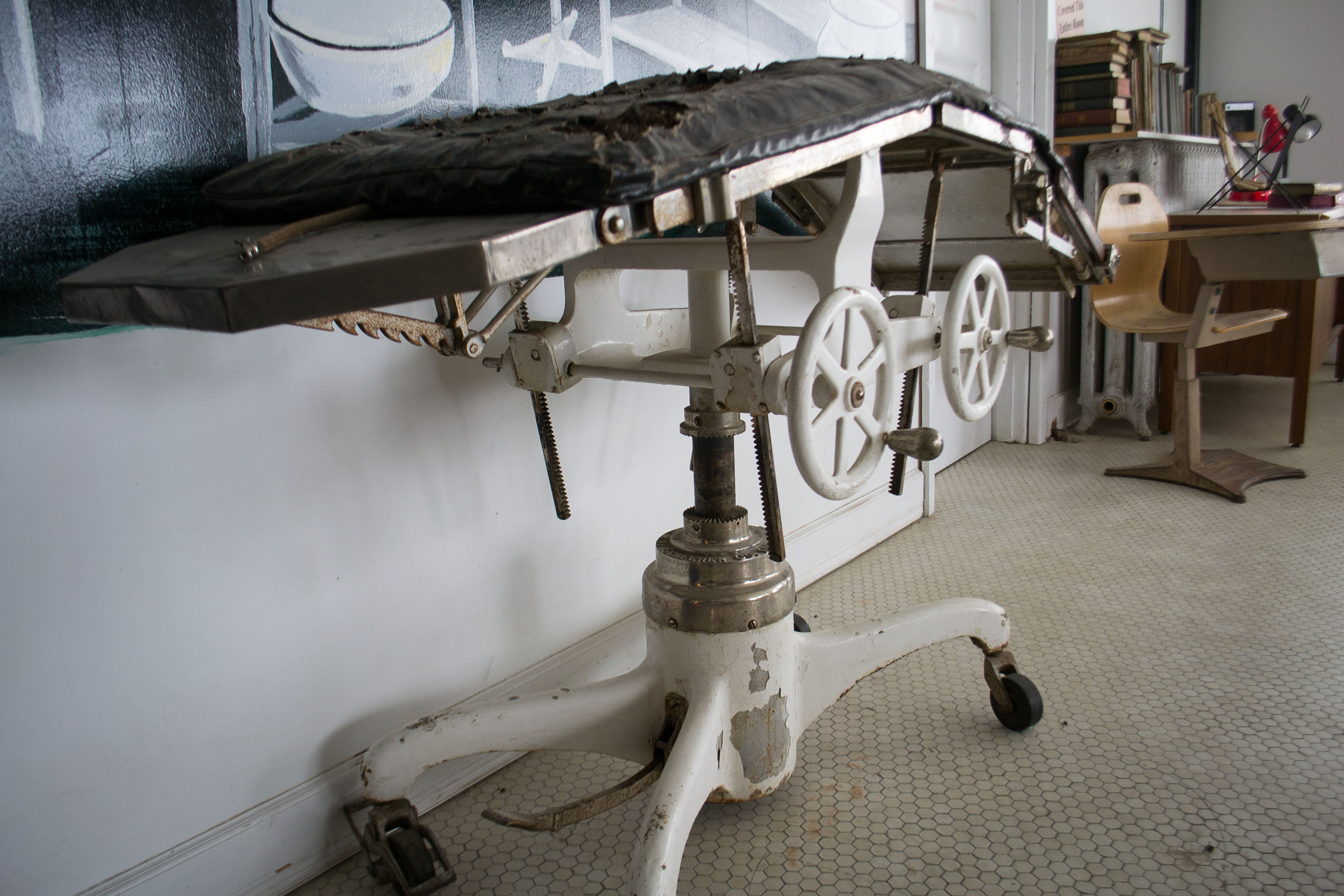 An examination table at the Hot Lake Springs Hotel